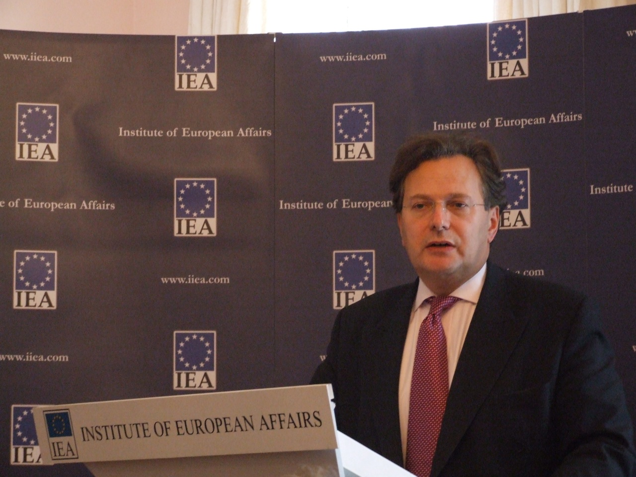 The Rt. Hon Lord Goldsmith QC, at the Institute of European Affairs ( in Dublin.